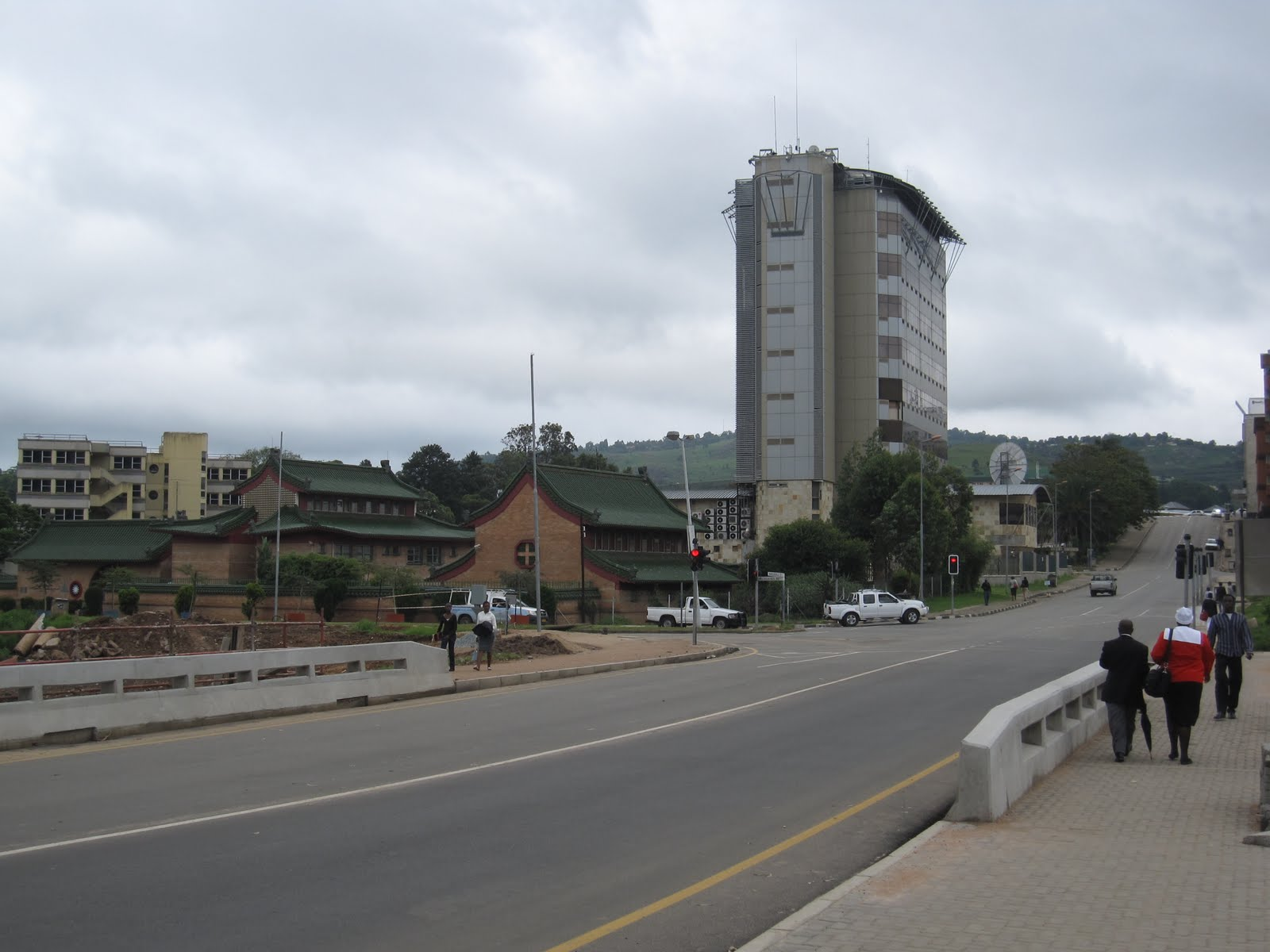 Mbabane, Eswatini's capital, Taiwan's mission on the left, the towering US Embassy on the right